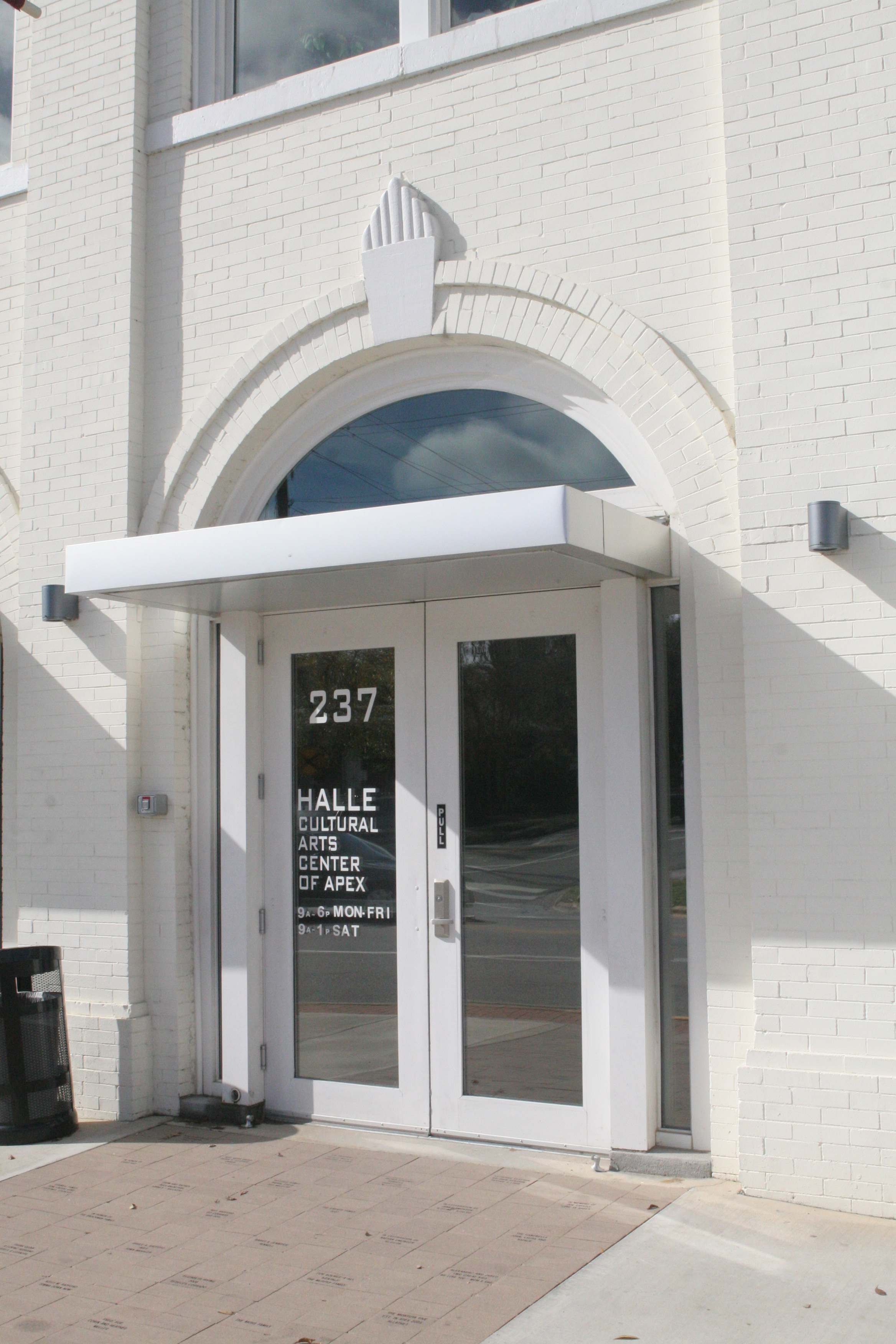 The entrance to the historic Apex Town Hall features an ornate keystone above the arch.